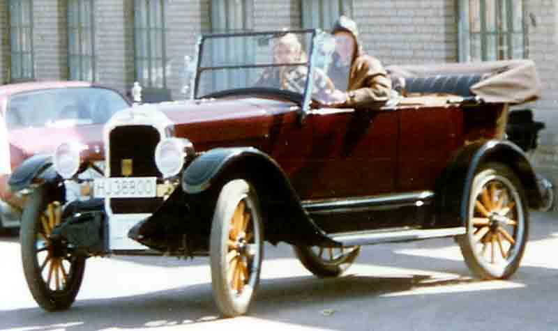 Star Model F Touring 1924.